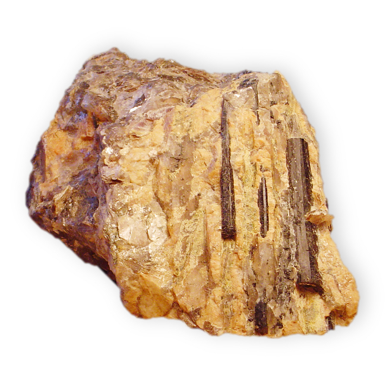 These mineral images are free to use how you wish.